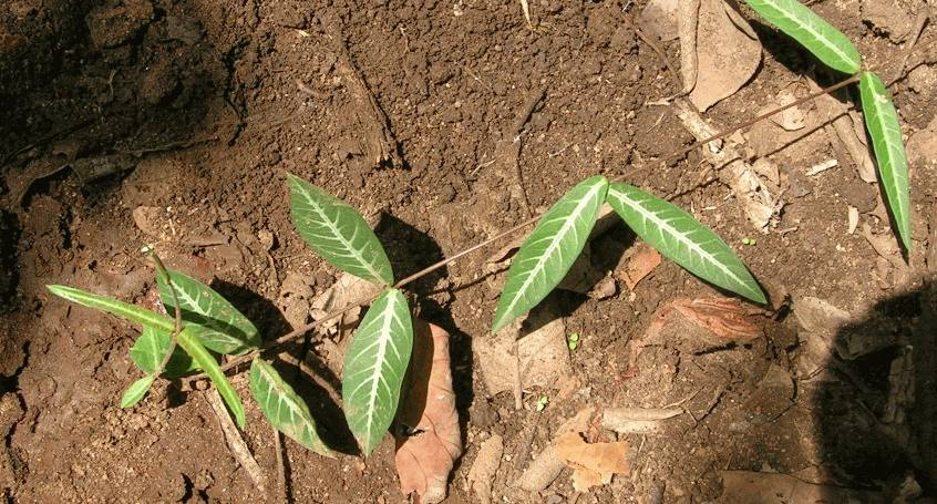 Hemidesmus indicus, Nannari Indian Sarsaparilla plant, Bangalore Photograph by L. Shyamal